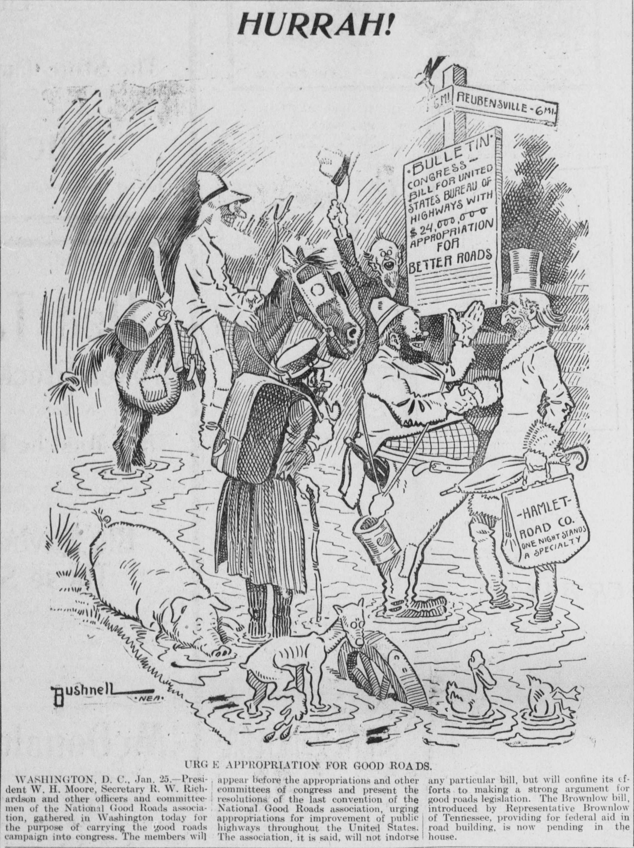 in 1904, E. A. Bushnell endorsed the National Good Roads Association, which was affiliated with the Good Roads Movement.